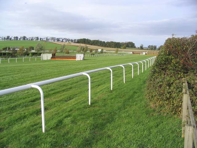 Kelso Racecourse Viewed from the B6461, Kelso Racecourse shares this ground with Kelso Golf Course. Most of the golf course is in the middle area of the racecourse.